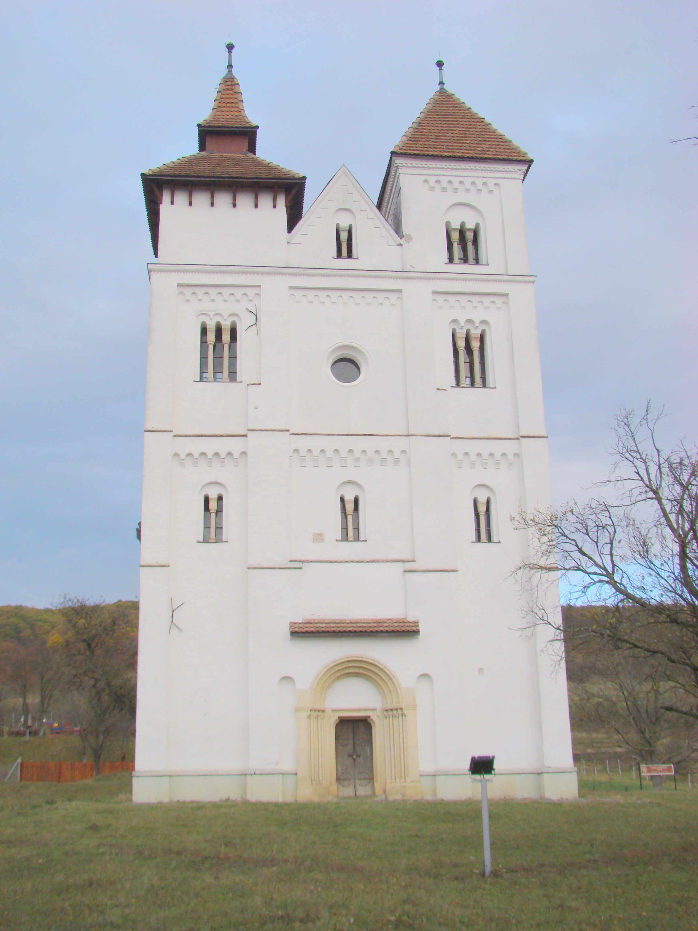 Lutheran church in Herina, Bistrița-Năsăud county, Romania